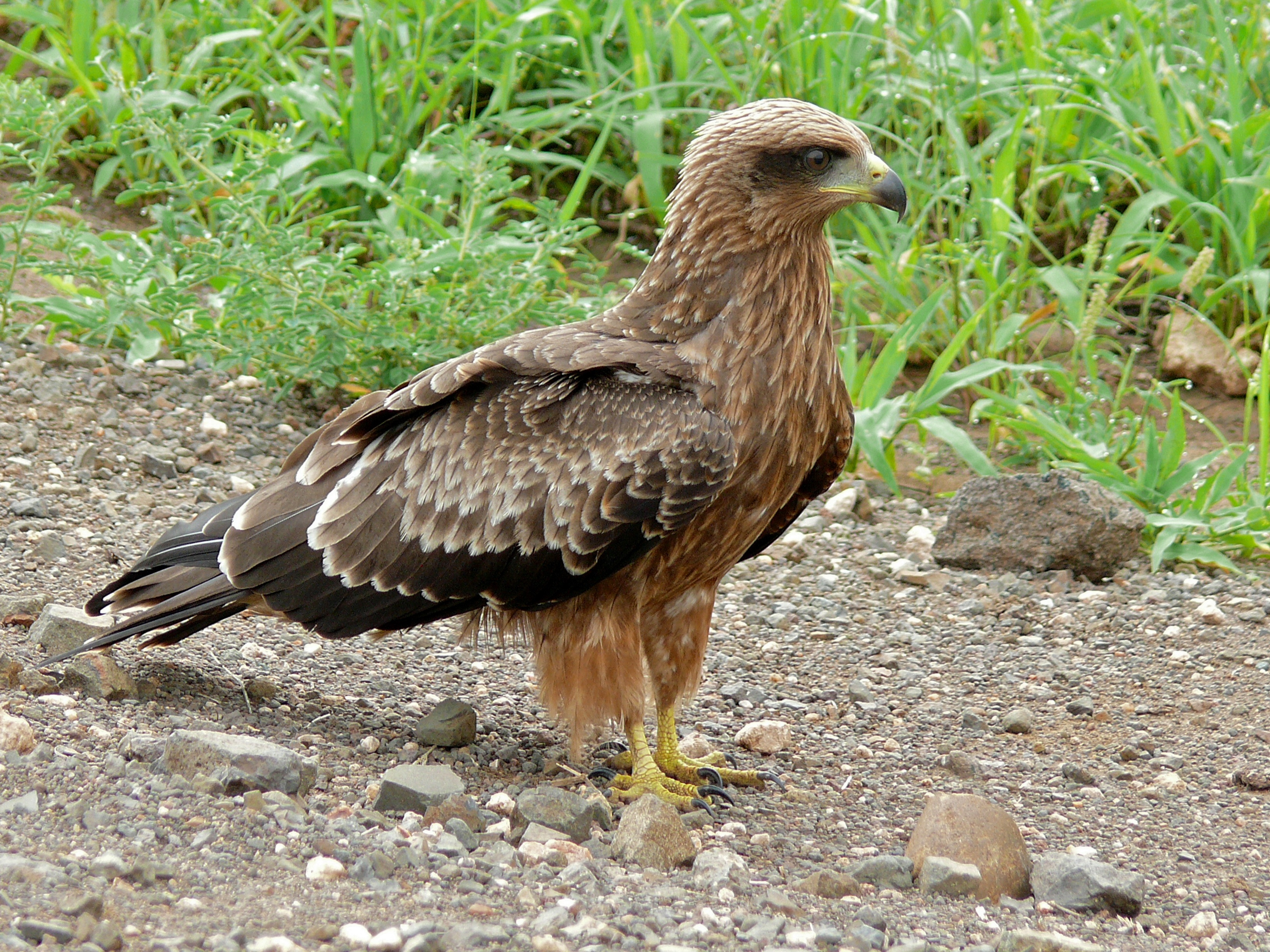 S90 South of Olifants, Kruger NP, SOUTH AFRICA